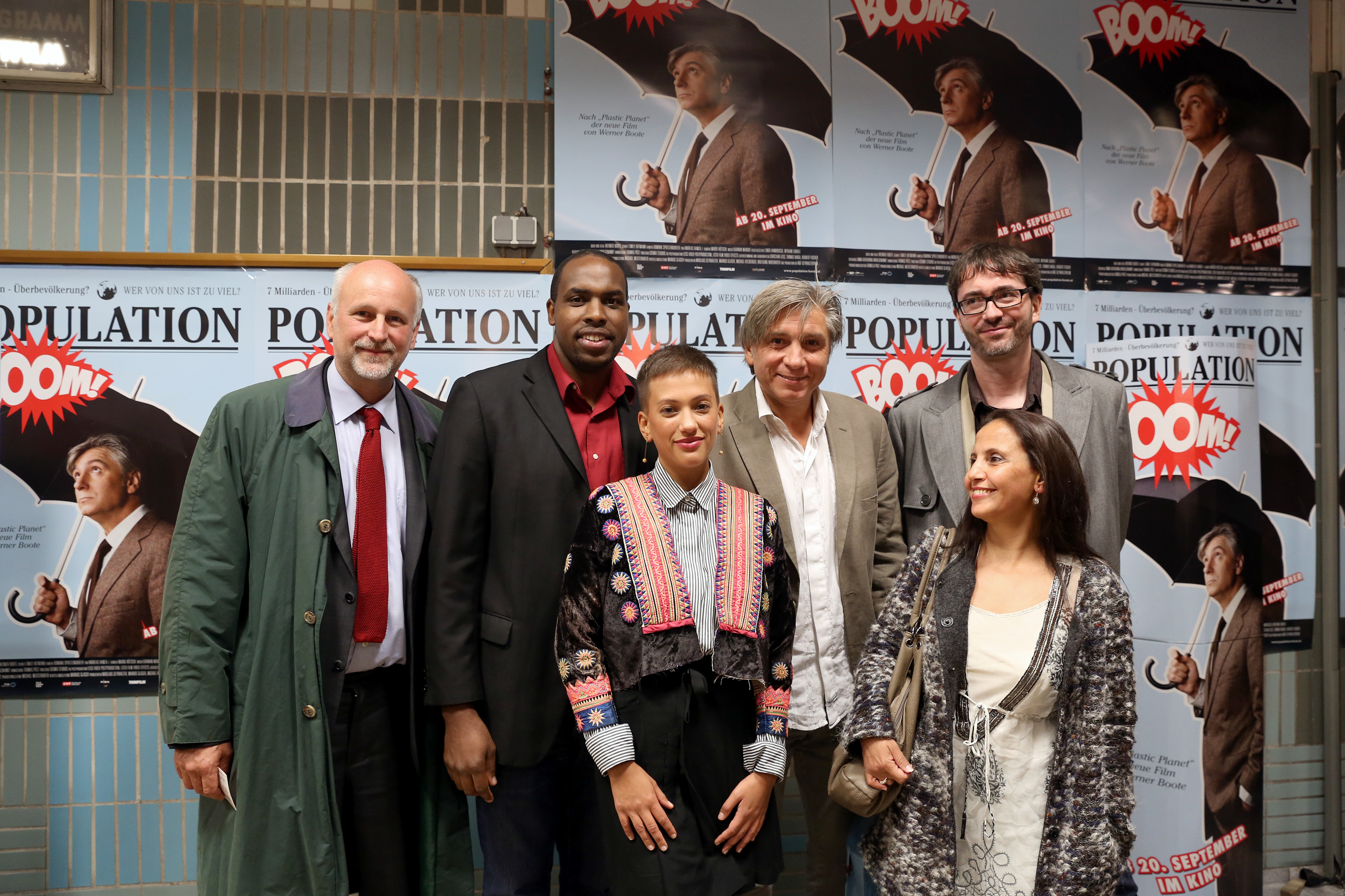 Wolfgang Lutz, Obadias Ndaba, Gianna Charles, Werner Boote, Myriam Loukili and Markus Glaser at the Viennese premiere of Boote's documentary Population Boom at Gartenbaukino in Vienna, Austria.